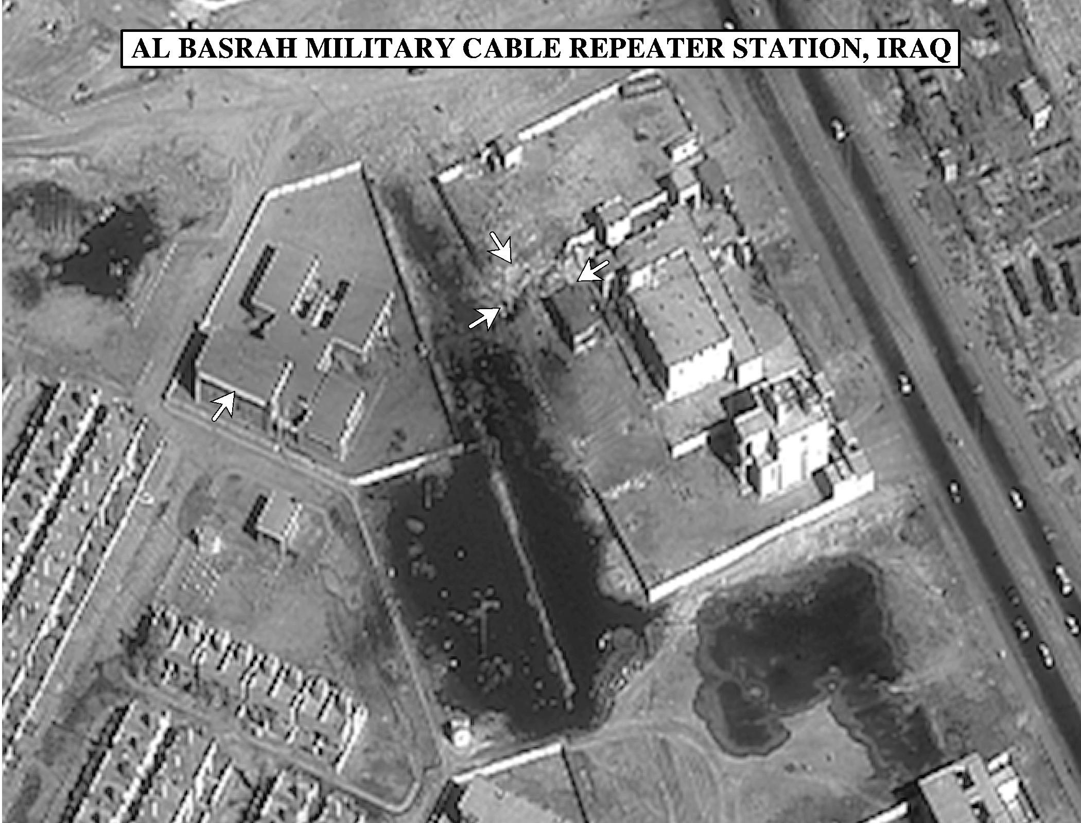 bomb damage assessment photo of the Al Basrah Military Cable Repeater Station, Iraq, used by Gen. Anthony C. Zinni, U.S. Marine Corps, commander in chief, United States Central Command, during a press briefing in the Pentagon on Dec. 21, 1998. DoD photo